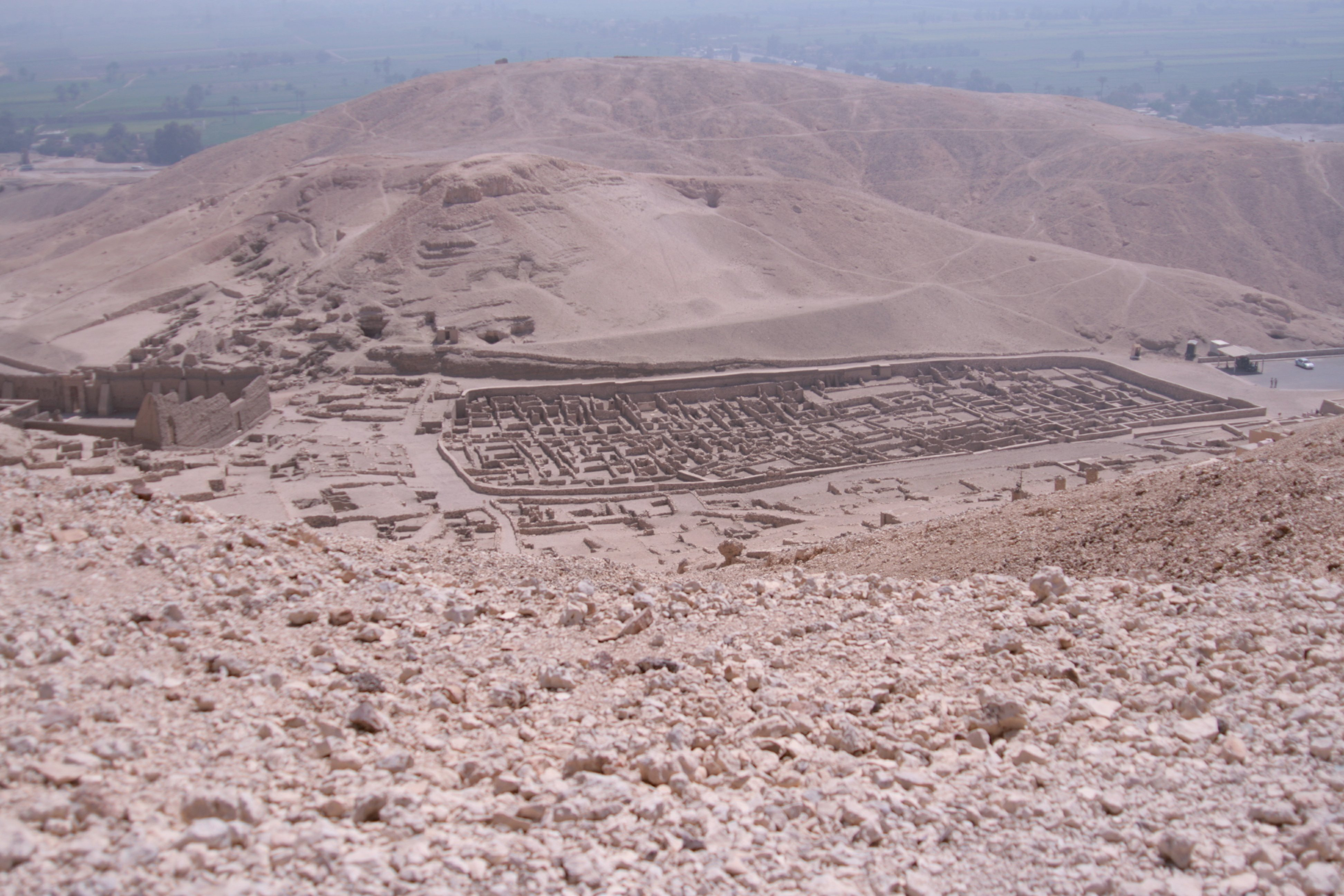 The place of Truth